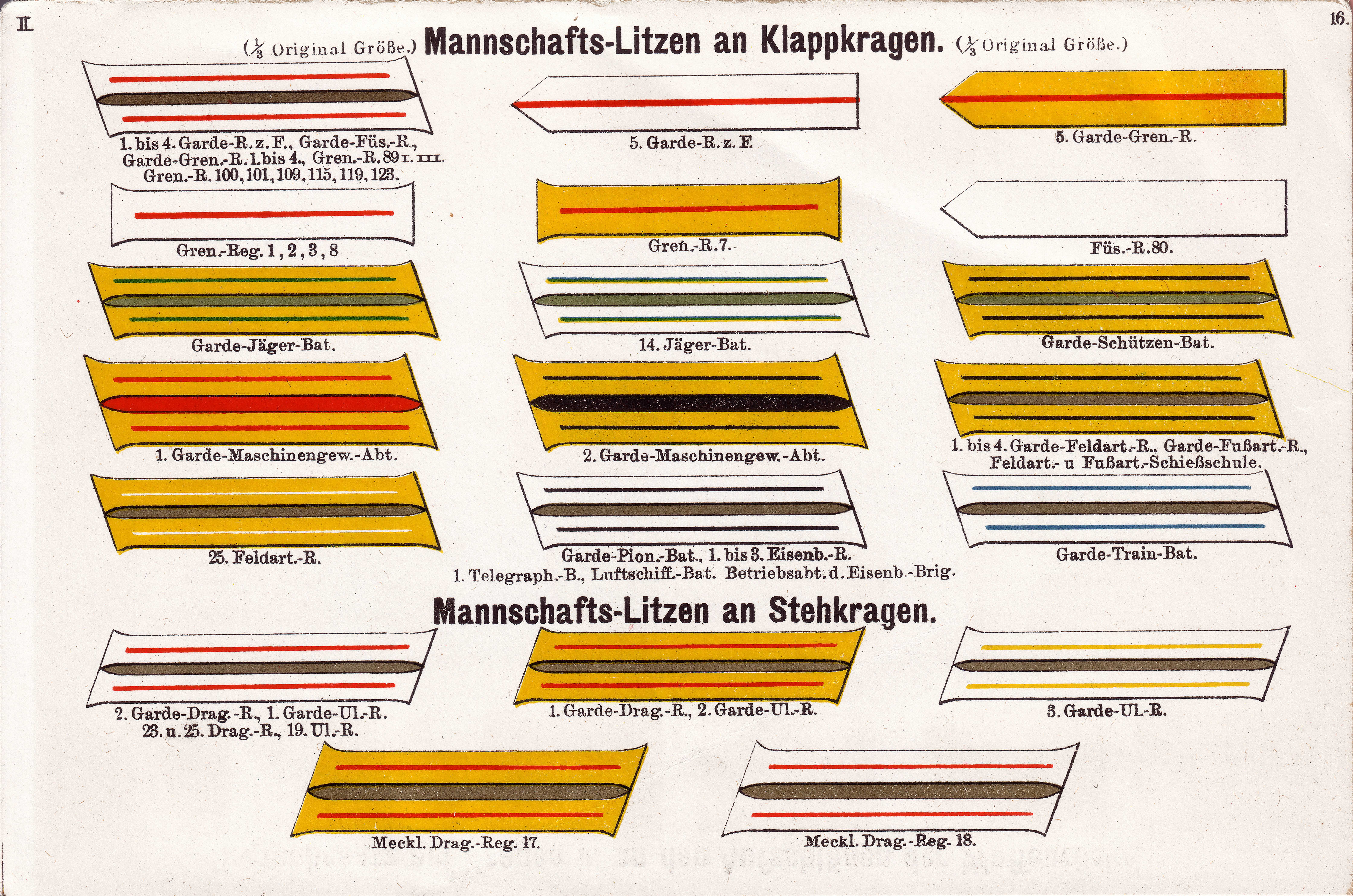 german collar patterns, prussian uniform for enlisted man and NCO (1910 - 1915).